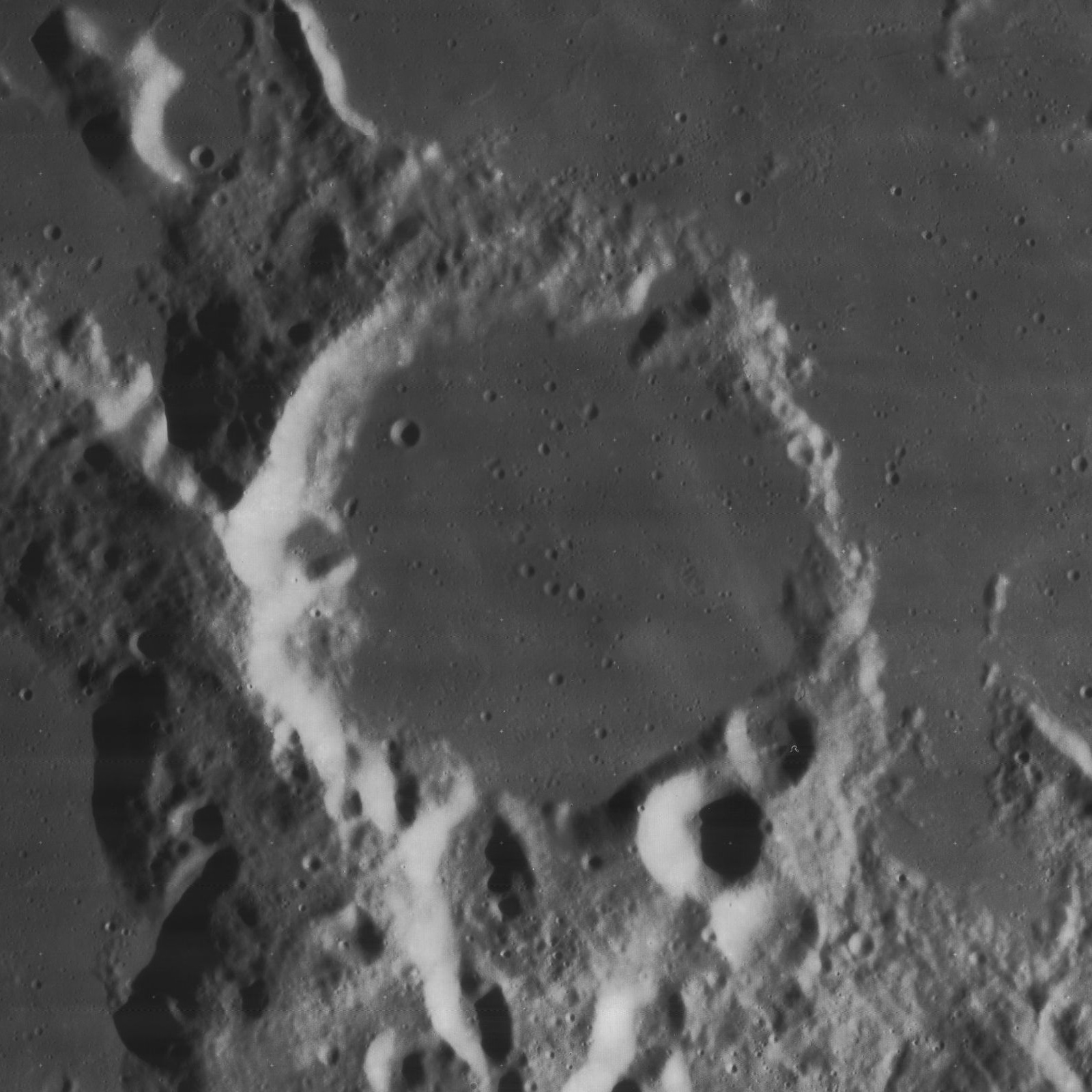 Capuanus, on the moon.